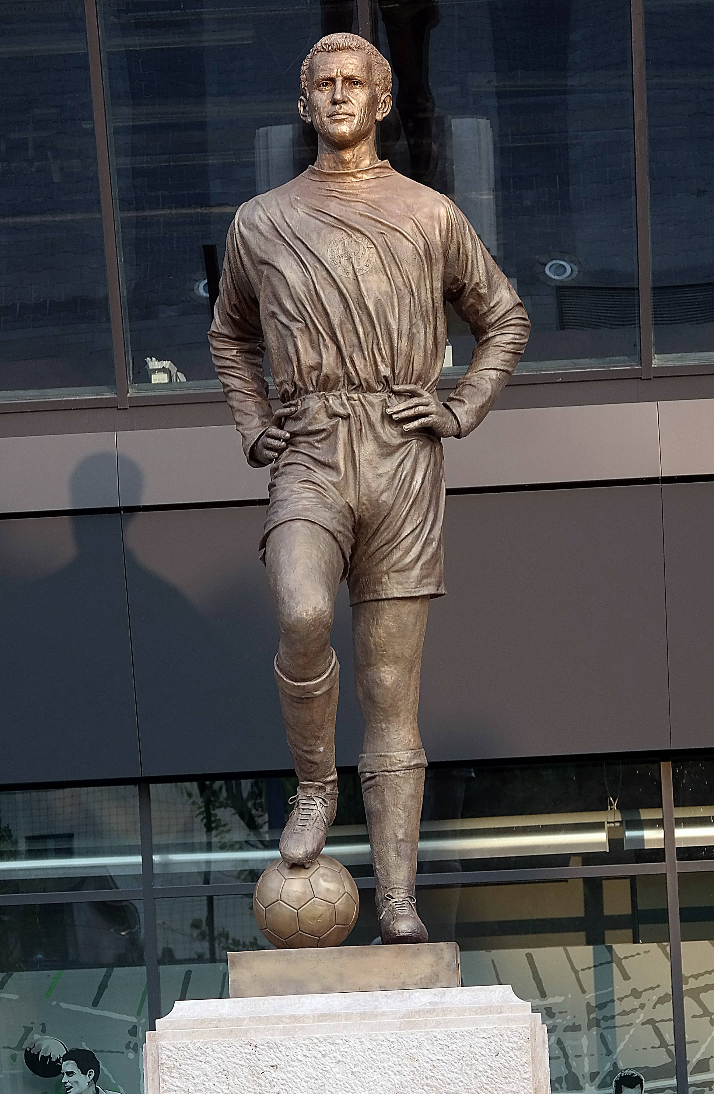 Albert Flórián statue at Groupama Arena in Budapest (by Sándor Kligl)